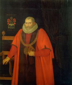 Sir John Leman (1554-1632)